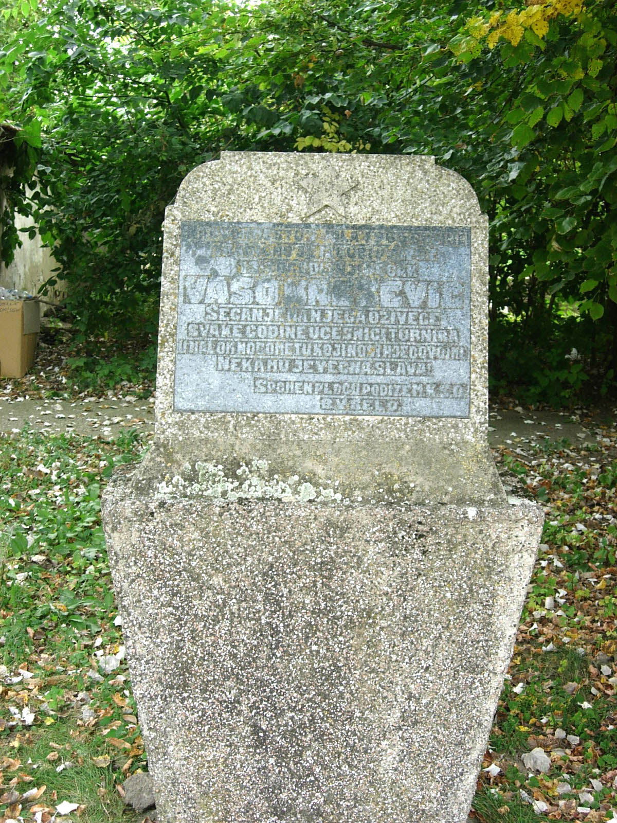 Memorial tablet of a boy in Banatsko Veliko Selo, who lost his life when the walls of the Catholic church were razed.